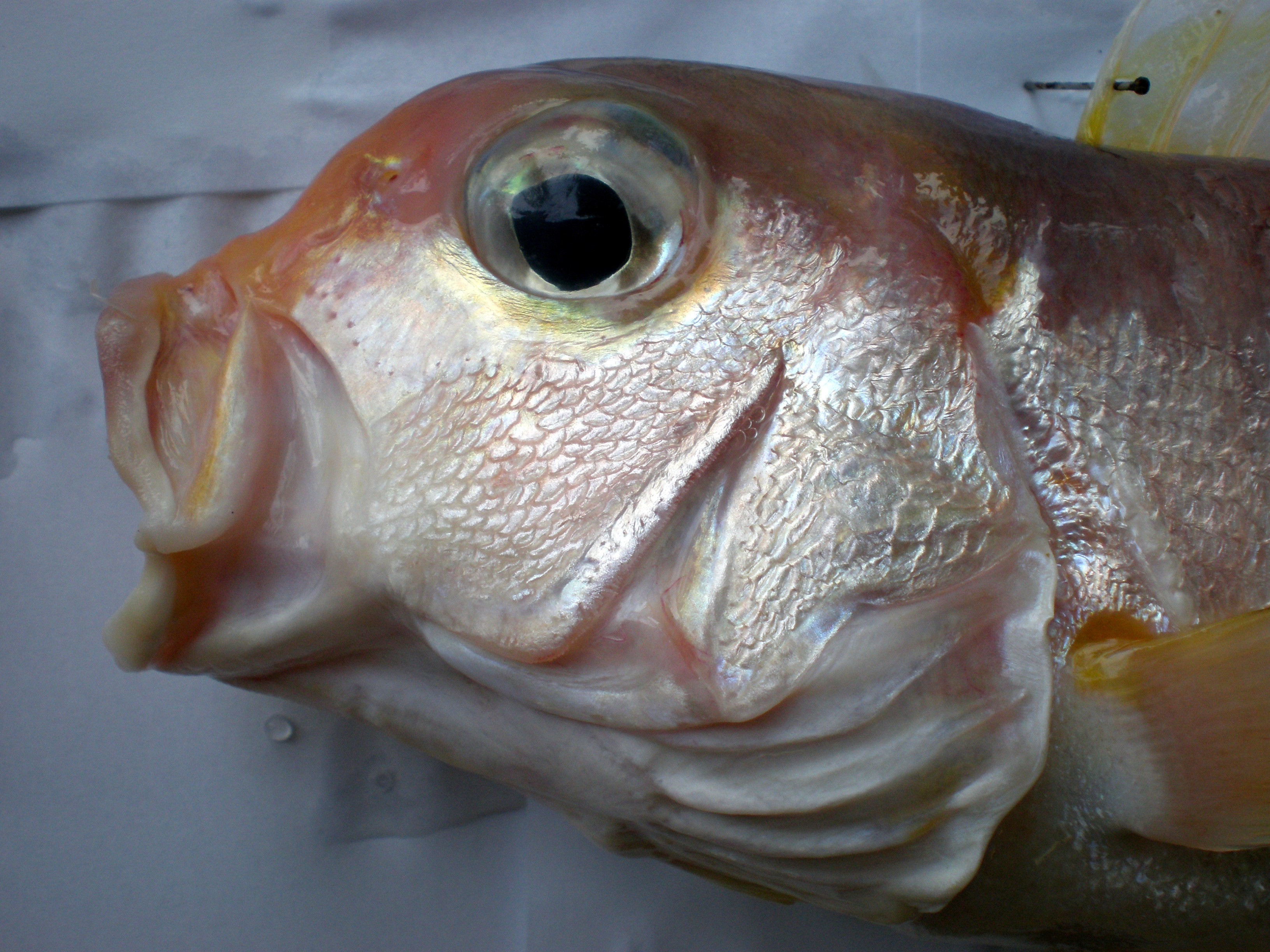 Branchiostegus wardi (Malacanthidae), head. Locality: Off Récif Toombo, off Nouméa, New Caledonia, depth 250 m, ccoordinates: 22°35'041S, 166°29'104E. Fork Length 383 mm, Weight 645 grams. Date: 07-07-2009. This photograph is also in FishBase.